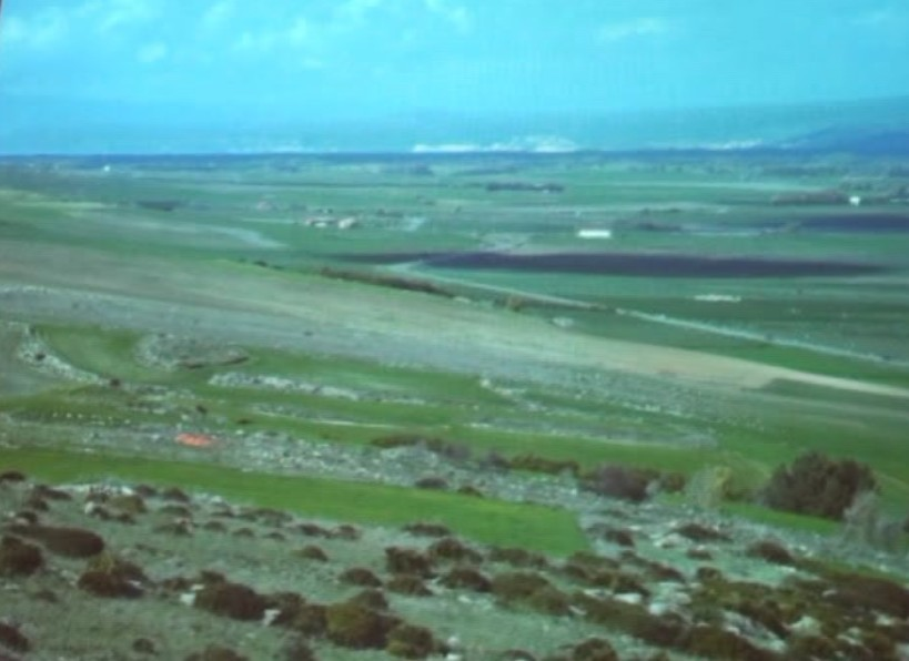 M. Prama